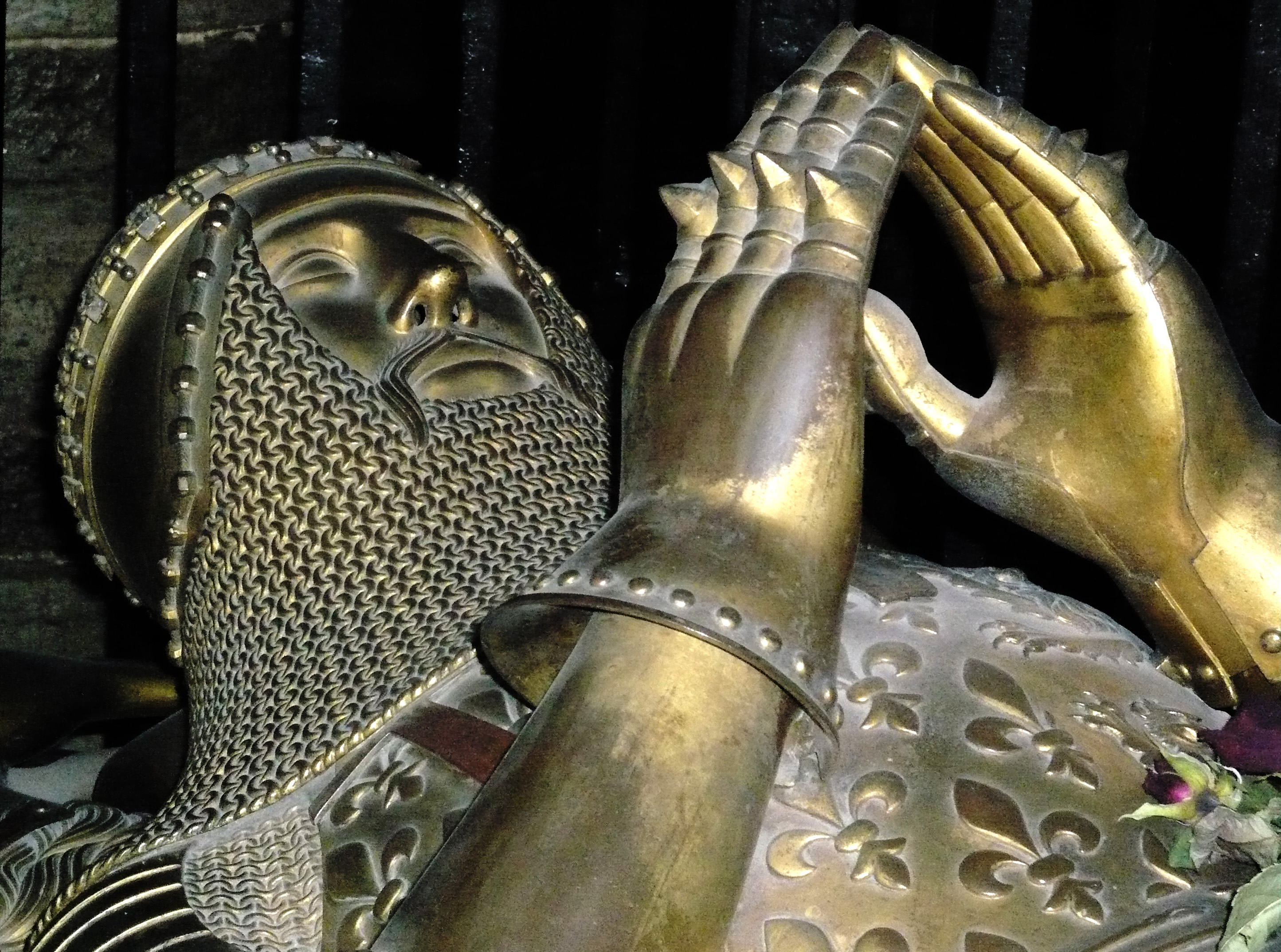 Burial effigy of Edward, "The Black Prince" in the Cathedral. Canterbury, Kent, England, United Kingdom